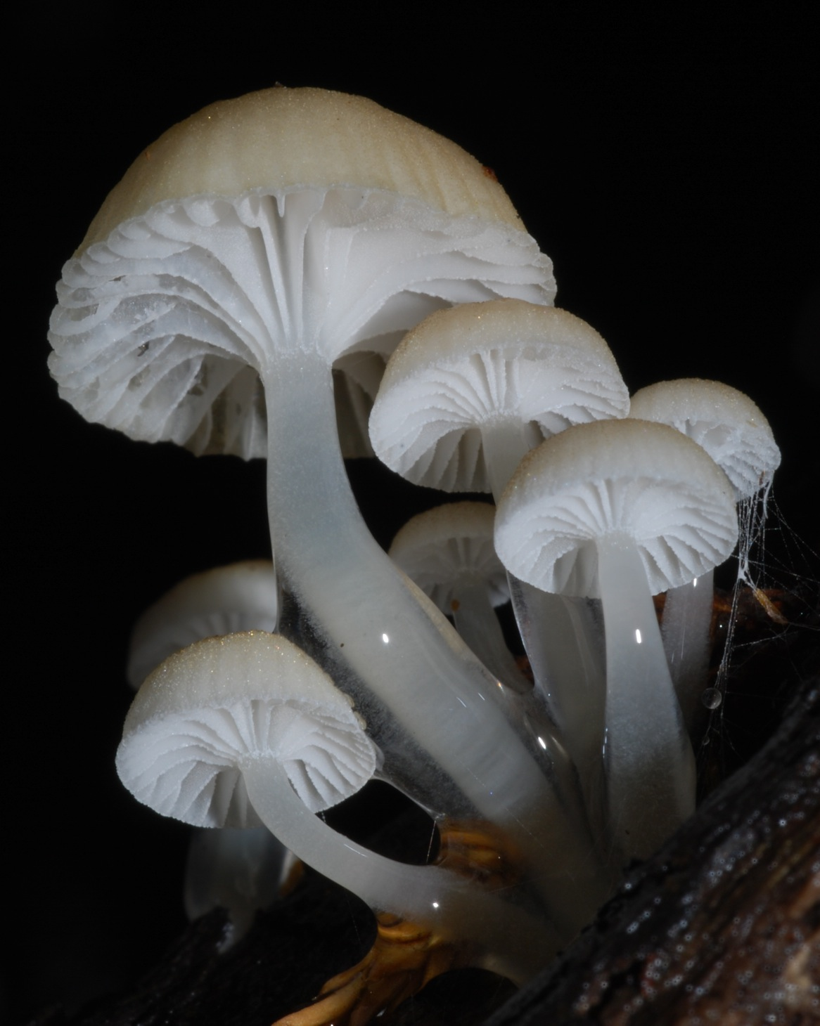 Roridomyces austrororidus Location: Kaipara harbour, Auckland, New Zealand. Notes: On the same fallen Leptospermum scoparium as observation